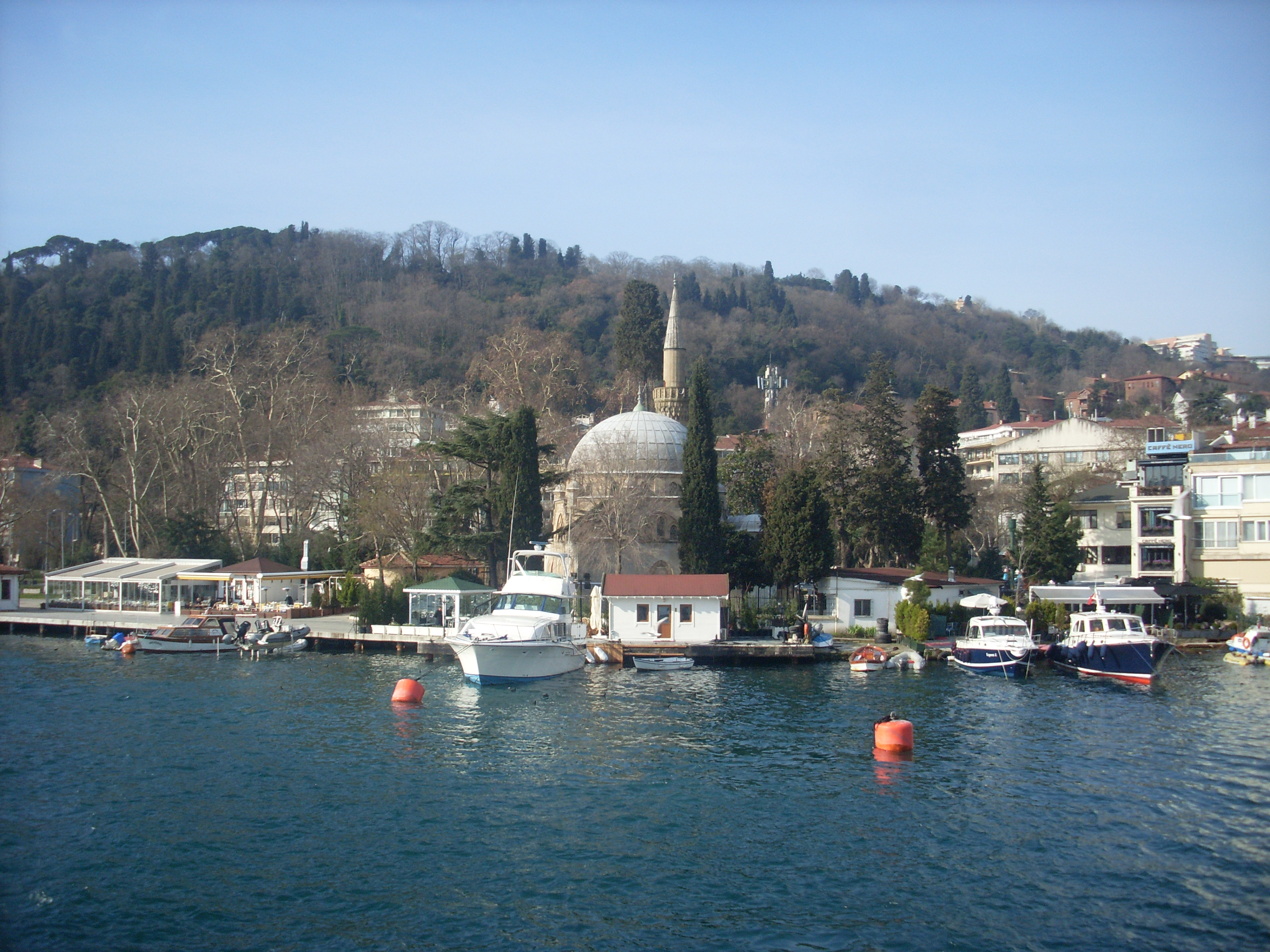 İstanbul - Bebek, Beşiktaş r8 - feb 2013